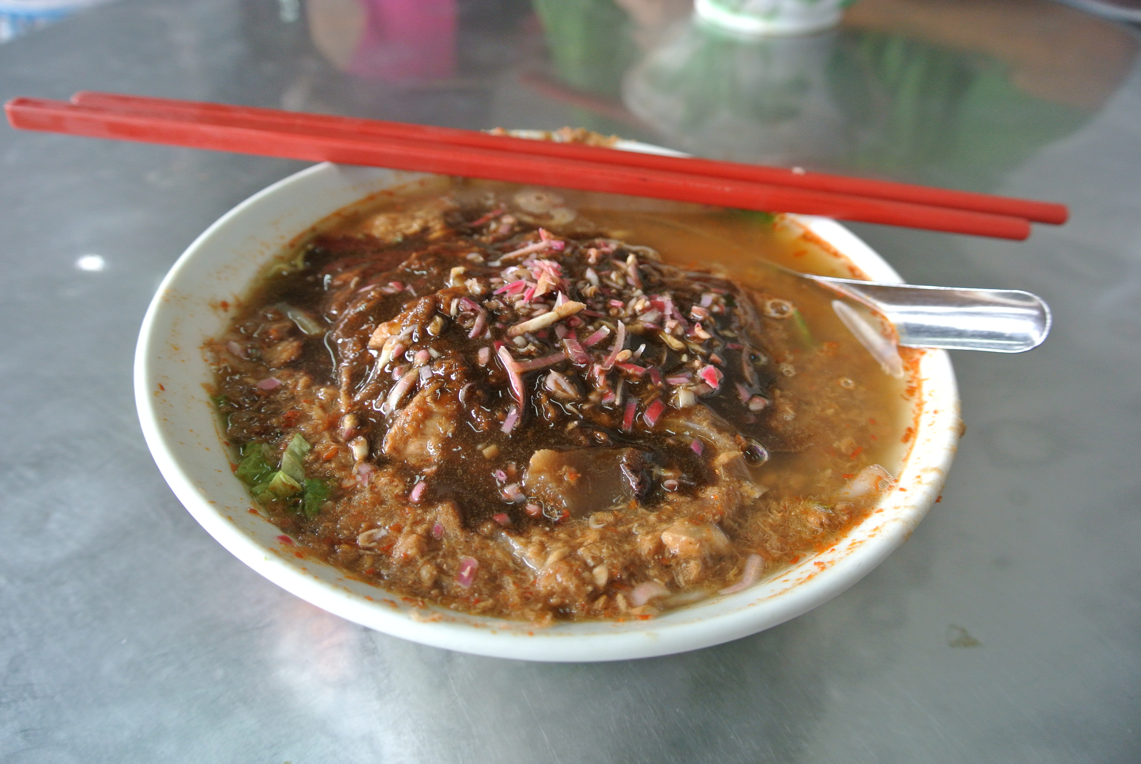 A sourish, but delicious bowl of Assam Laksa at Air Itam